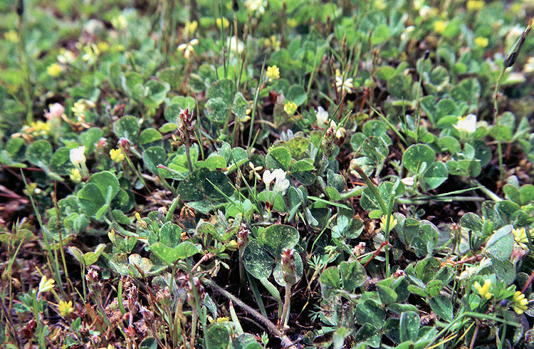 Trifolium subterraneum at Humboldt Bay National Wildlife Refuge Complex, California, USA